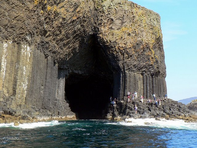 Fingal's Cave, Staffa Seen from the MV "Uillin of Staffa", on a trip from Fionnphort.